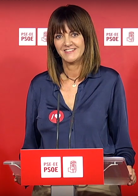 Idoia Mendia, in the evaluation of the results of the general elections of Spain in November 2019.